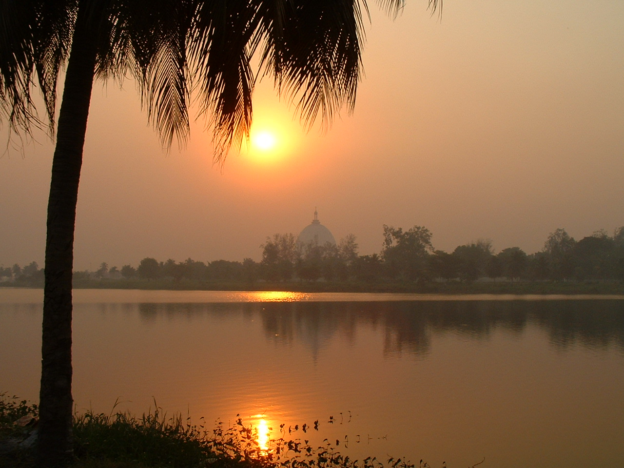 Basilica of Our Lady of Peace of Yamoussoukro is a Roman Catholic church in Yamoussoukro, the administrative capital of Côte d'Ivoire (Ivory Coast).